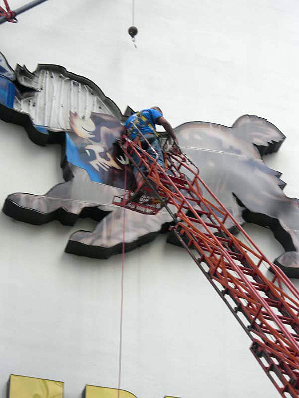 photograph of Tropical Signs of Florida removing the Coppertone girl sign from the east side of the Concord Building on Flagler Street in Miami, Florida on May 17, 2008